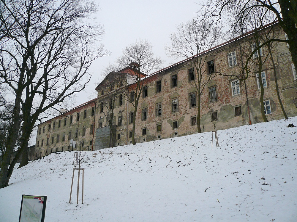 Buštěhrad, zámek, pohled na severní křídlo, 2013